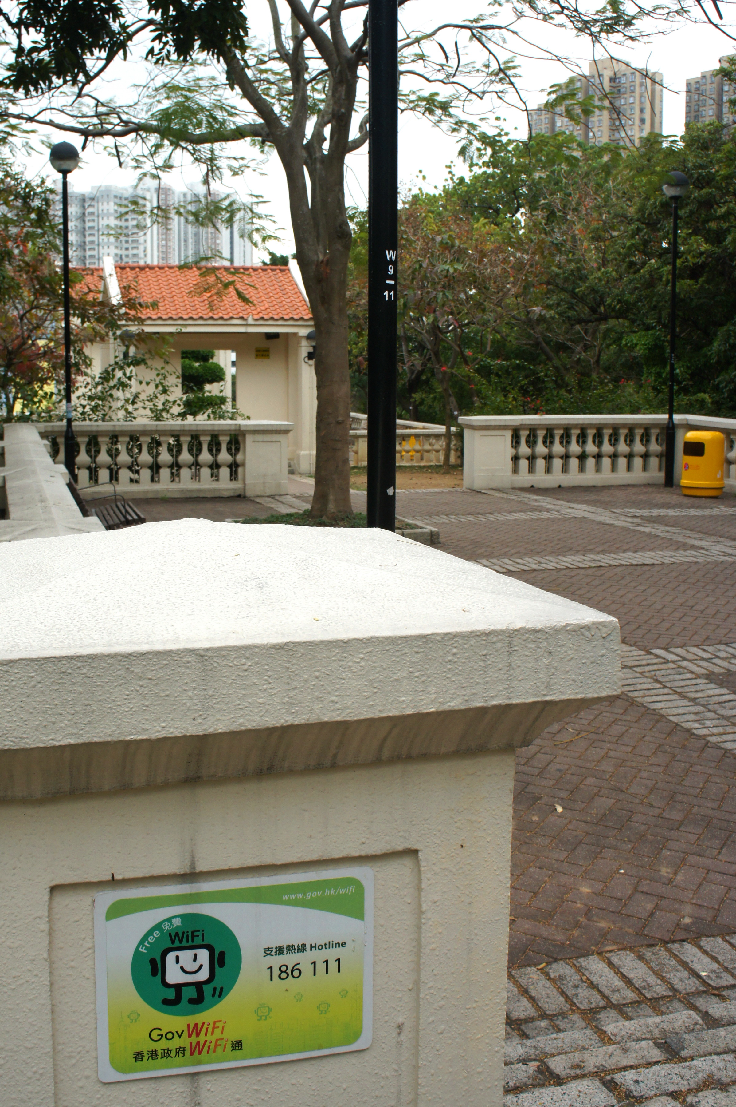 A GovWiFi sign at the Lookout Pavilion of theTsing Yi Park, Hong Kong.